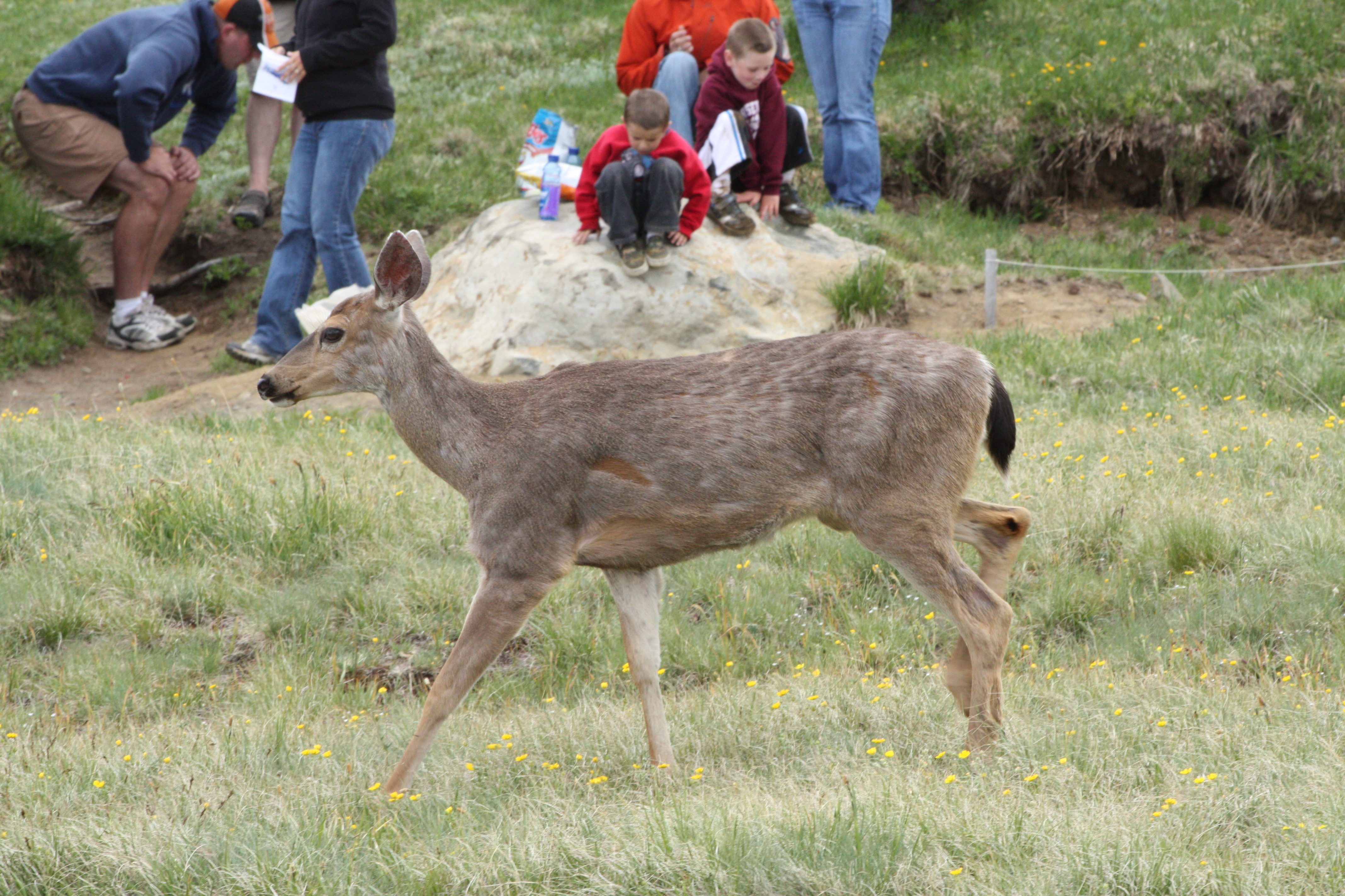 Columbian Black-tailed Deer, Coast Deer female